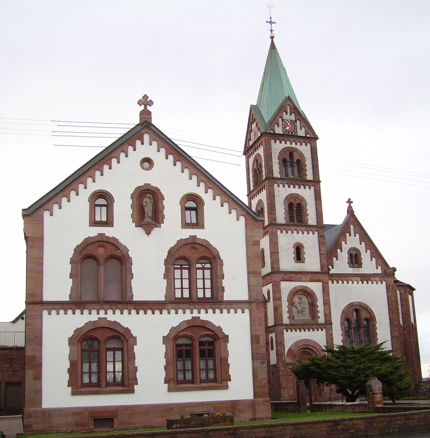 view of Martinshöhe, Germany